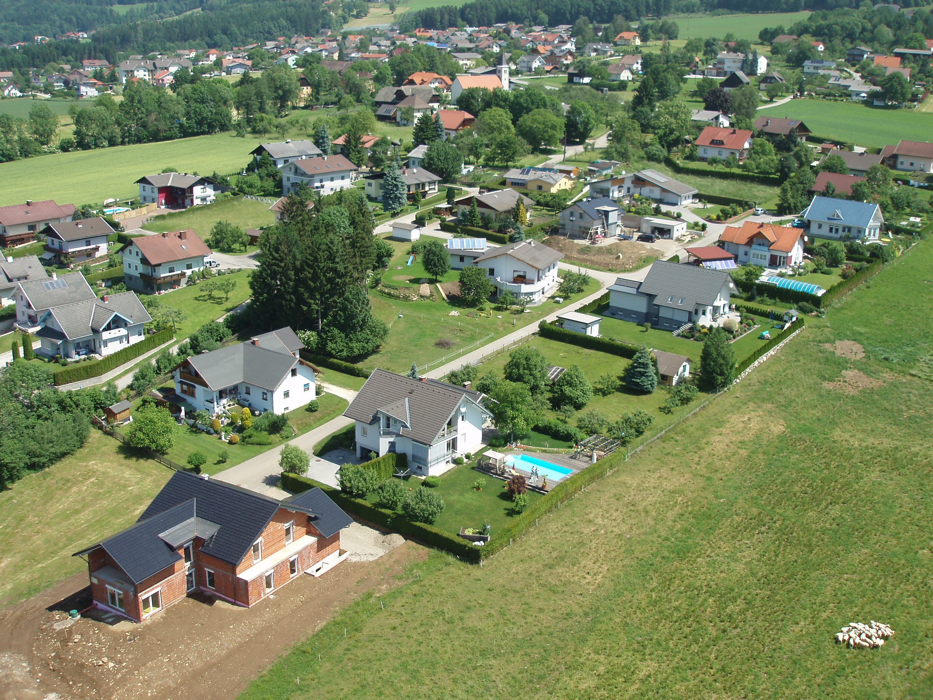 A bird's perspective of the southern part of Gemmersdorf in Carinthia, Austria.